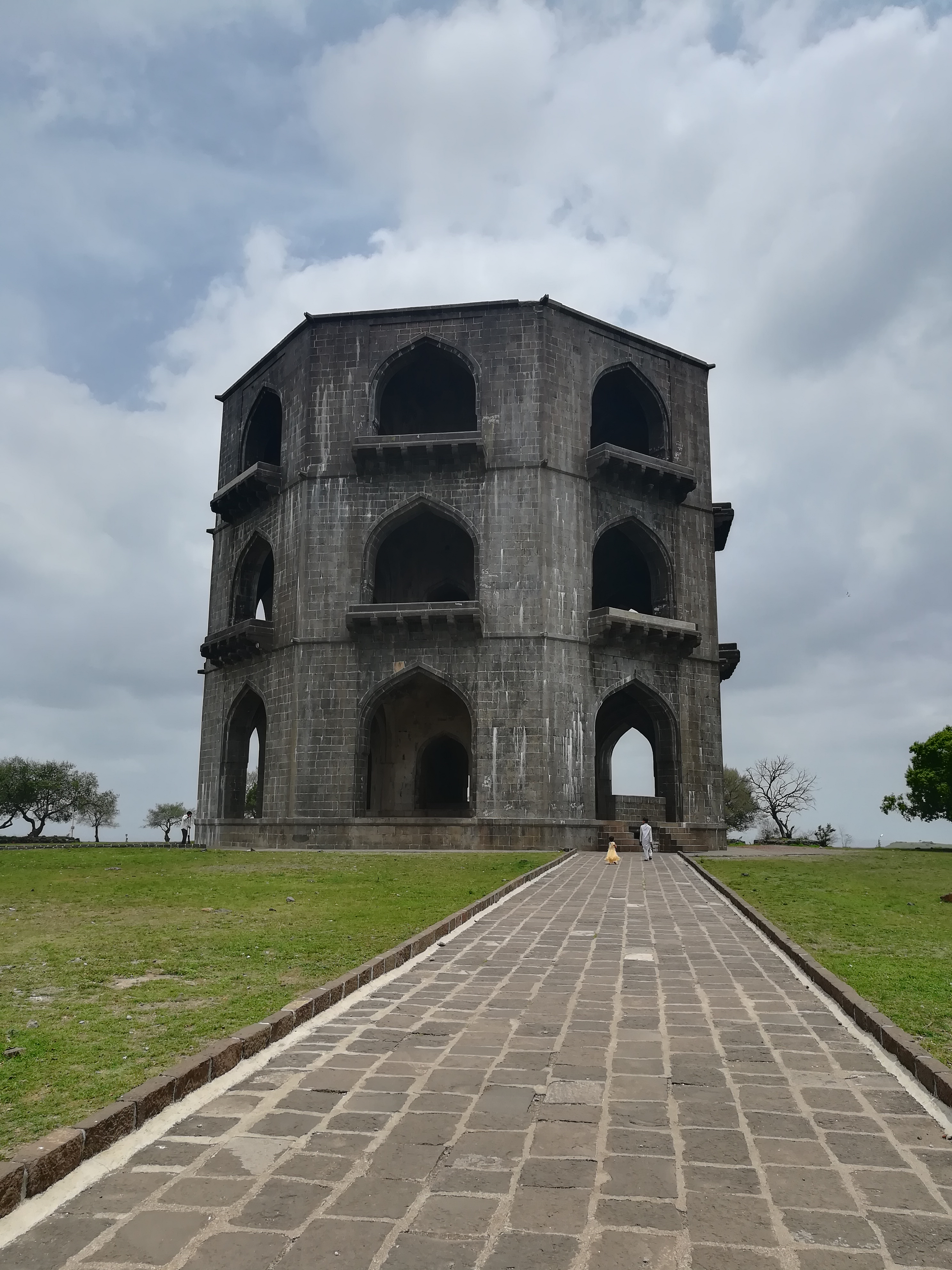 Tomb Of Salabat Khan II aka Chand BIbi Mahal.One of the best tourist attraction in Ahmednagar